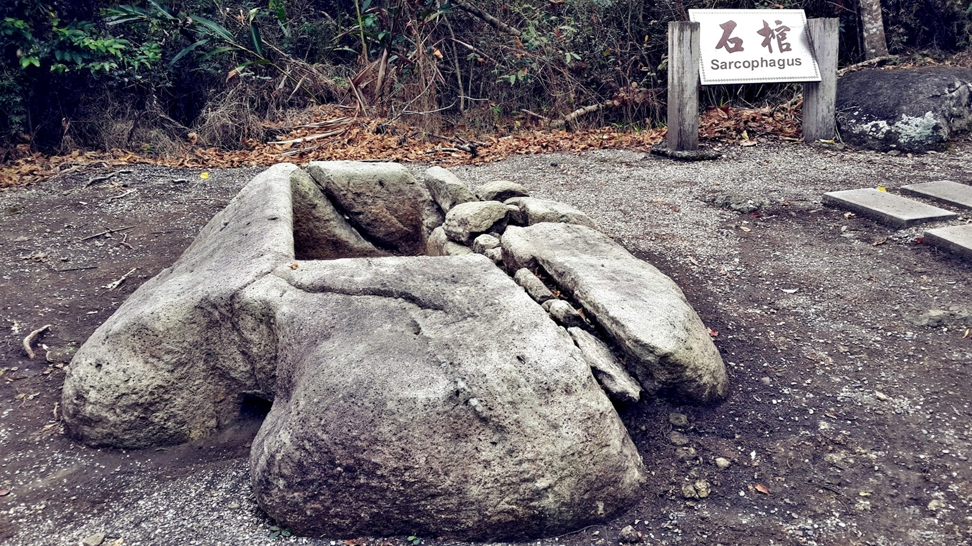 The Dulan ruins are located the Dong River township Dulan village Northwest approximately 1 kilometer gentle sea step place, is the east coast megalithic culture representative ruins, is apart from now approximately 3000 ago. According to archaeologist's extrapolation, the Dulan ruins belongs to the unicorn culture, at present only the sarcophagus consisting of three stone walls erected on the ground remains. In 1988 is assigned by Taitung County government is three levels of historical sites.